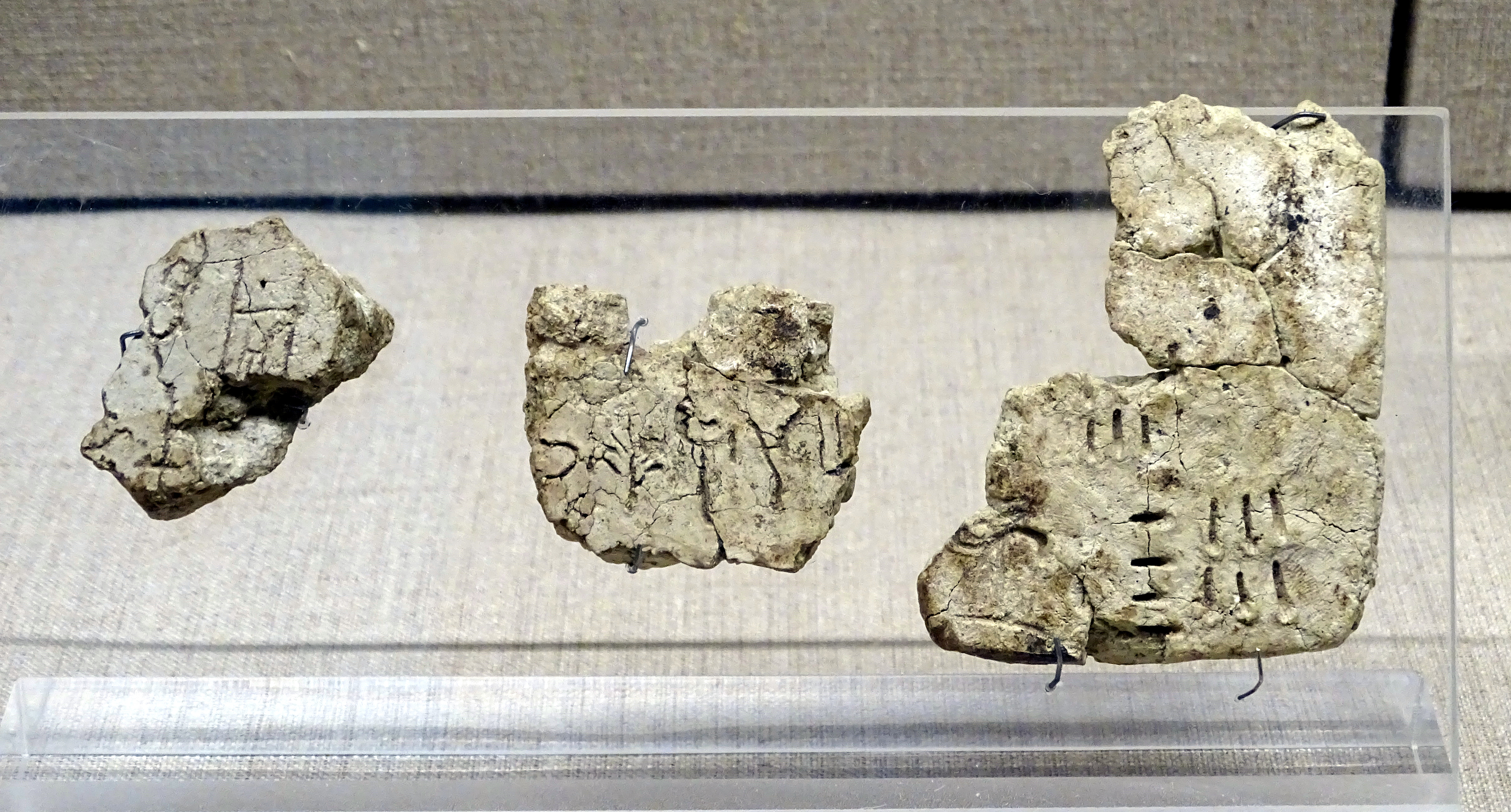 Clay tablets with Linear A script, found at Akrotiri, in the Museum of Prehistoric Thera (inv 8366,8367, 8368), Santonrini, Greece. Mature Late Cycladic I period (17th century BCE).